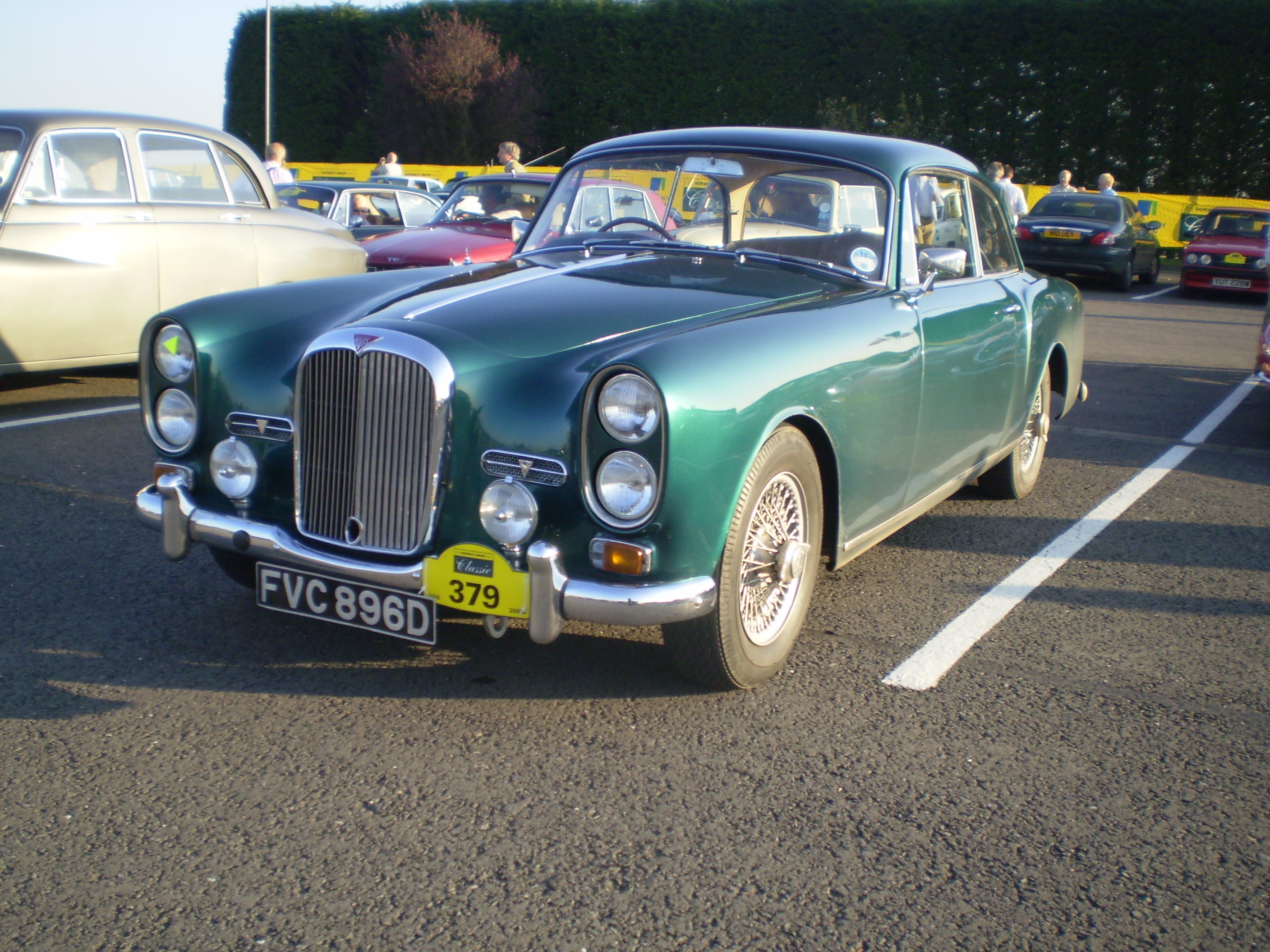 Alvis TF21 (DVLA) first registered 1 March 1966, 2993cc 12 October 2008, MSA Classic, Drivers: Mike Malyon, Maureen Malyon